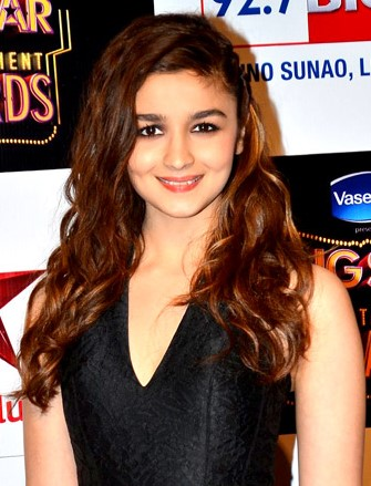 2014 BIG Star Awards